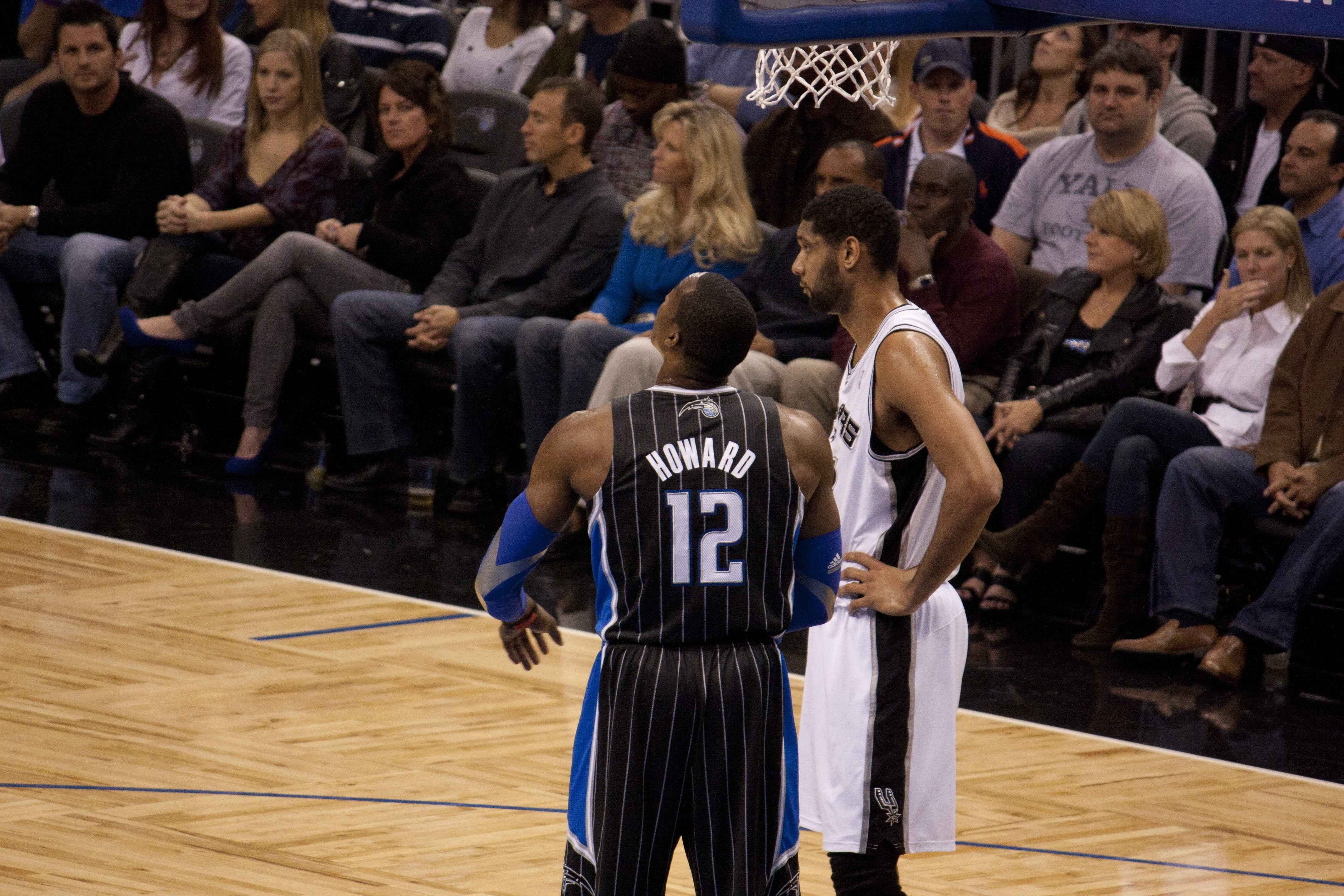 Dwight Howard of the Orlando Magic with the San Antonio Spurs' Tim Duncan